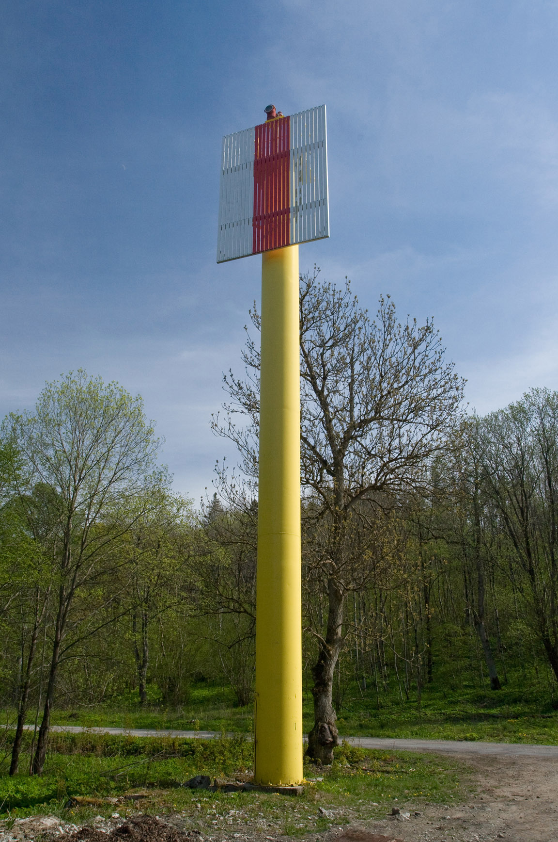 Kunda rear light beacon